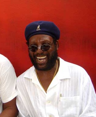 Duas lendas vivas: Black Scorpio e Bunny Rugs. Foto Dubdem e FabDub.